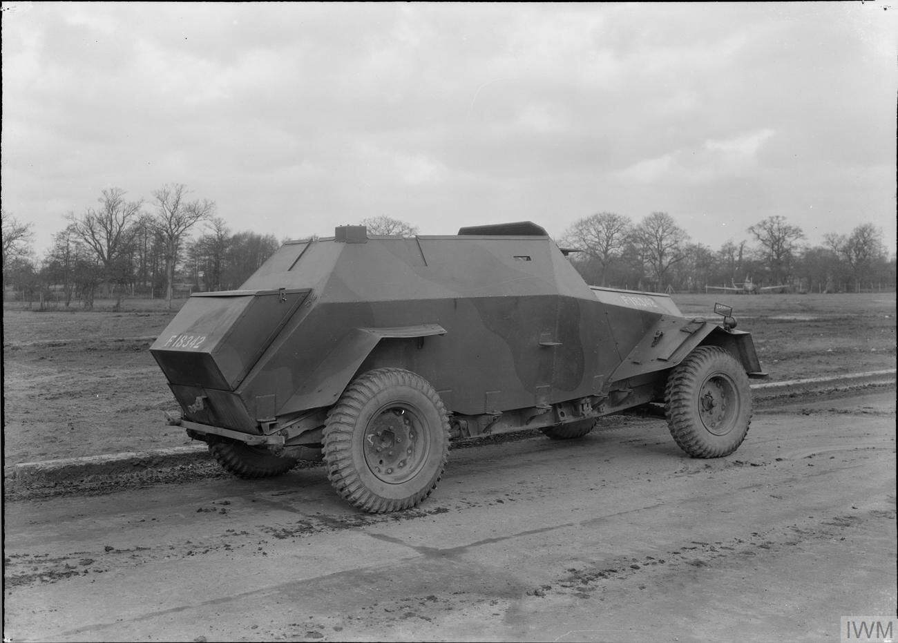 Tanks and Afvs of the British Army 1939-45 Humber I light reconnaissance car (Ironside I)